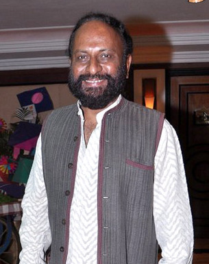 Director Ketan Mehta at the launch of animation TV show Motu Patlu.